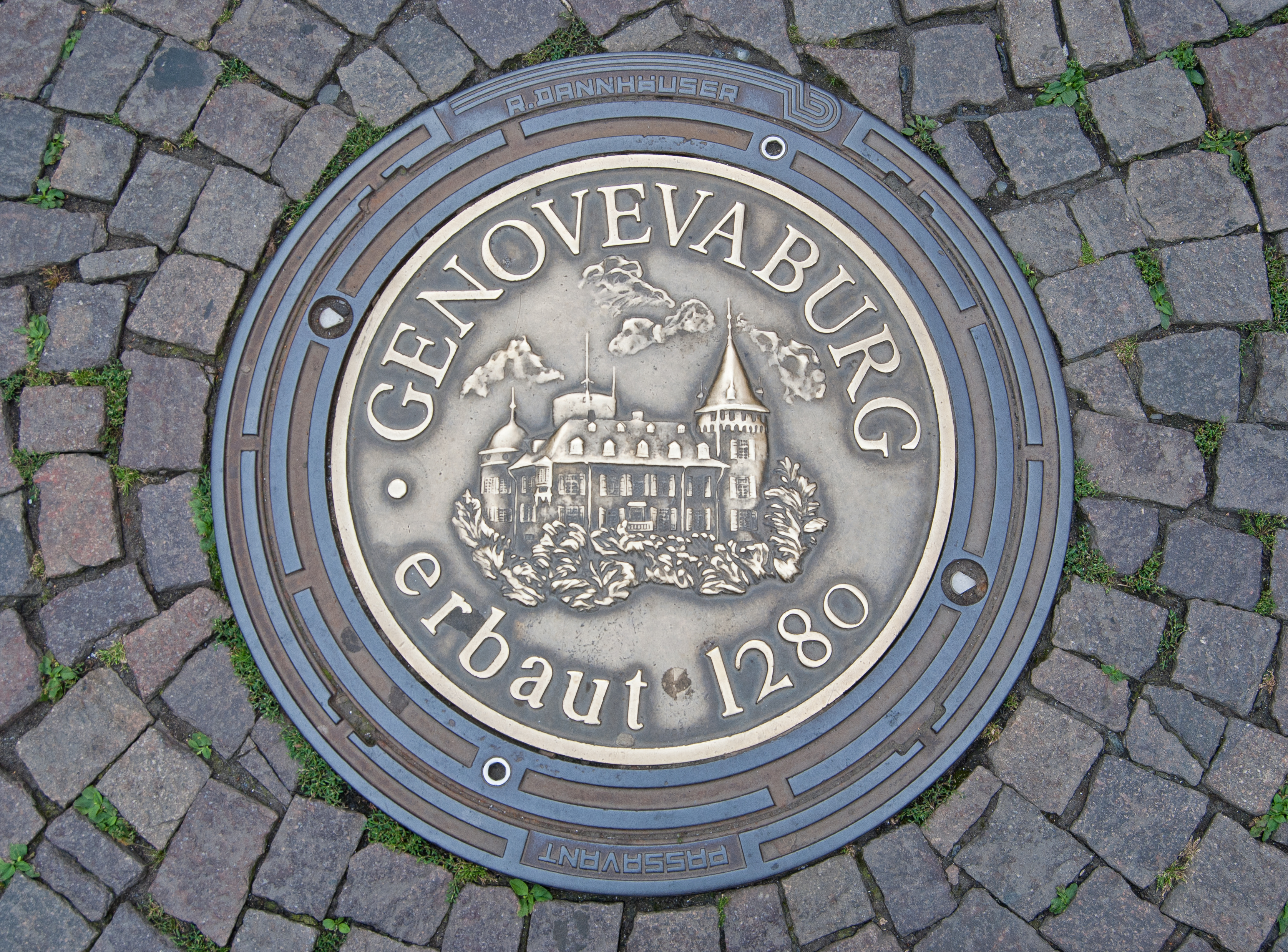 Mayen (Rhineland-Palatinate, Germany) – manhole cover with a copy of the Genoveva Castle This photograph was taken with a Nikon D3000